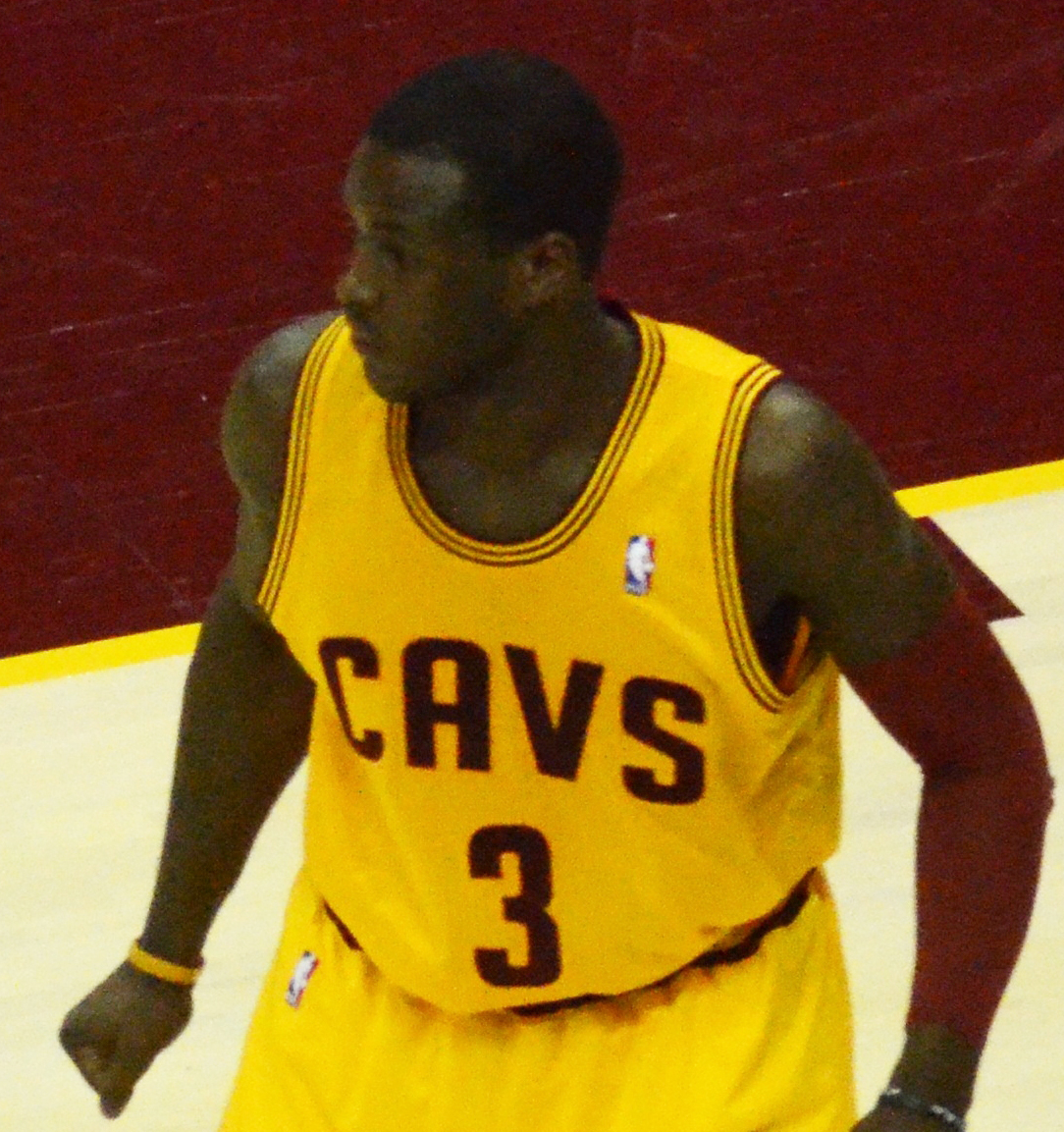 Dion Waiters, Cleveland Cavaliers